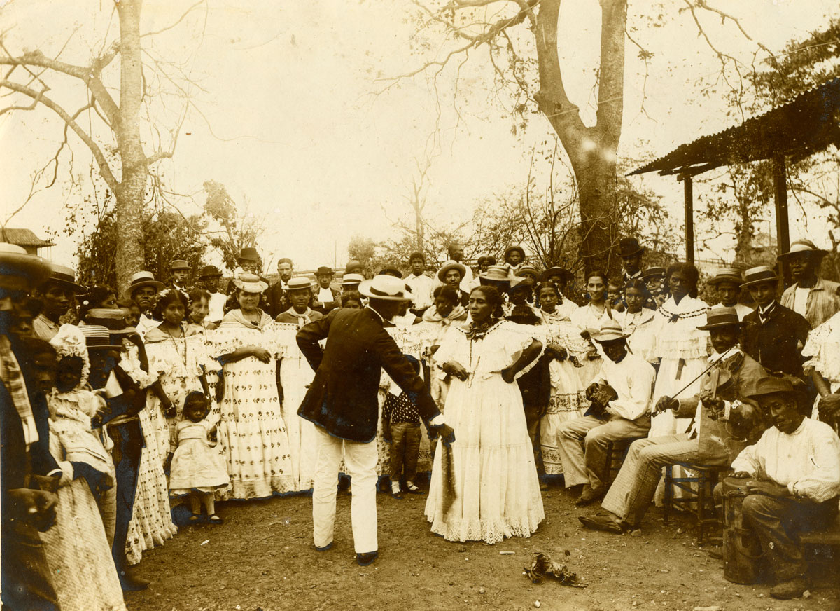 festival in Hatillo - Panama City, ca. 1890